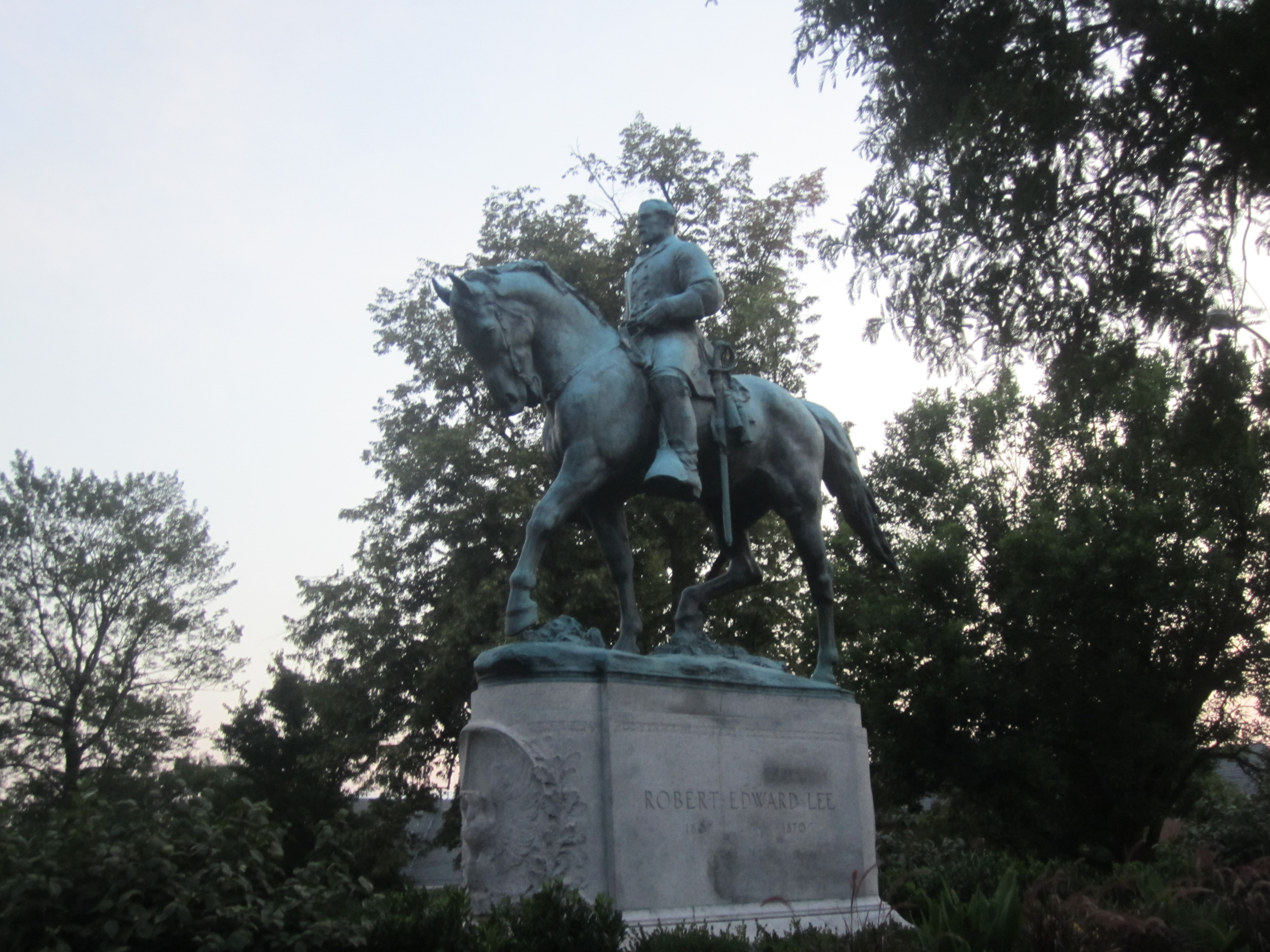 With Canon camera, I took photo of equestrian statue of Robert E. Lee in Charlottesville, VA.